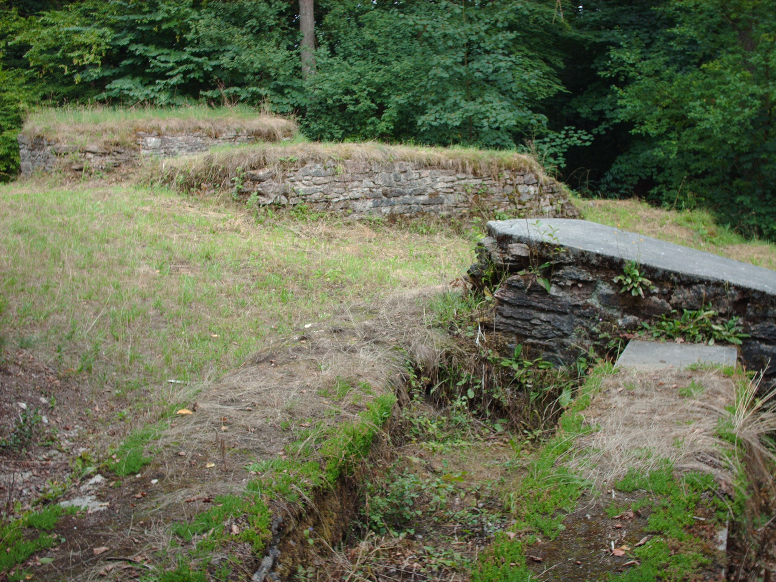 Castle ruin Pep(p)erburg, Lennestadt, Germany check usage